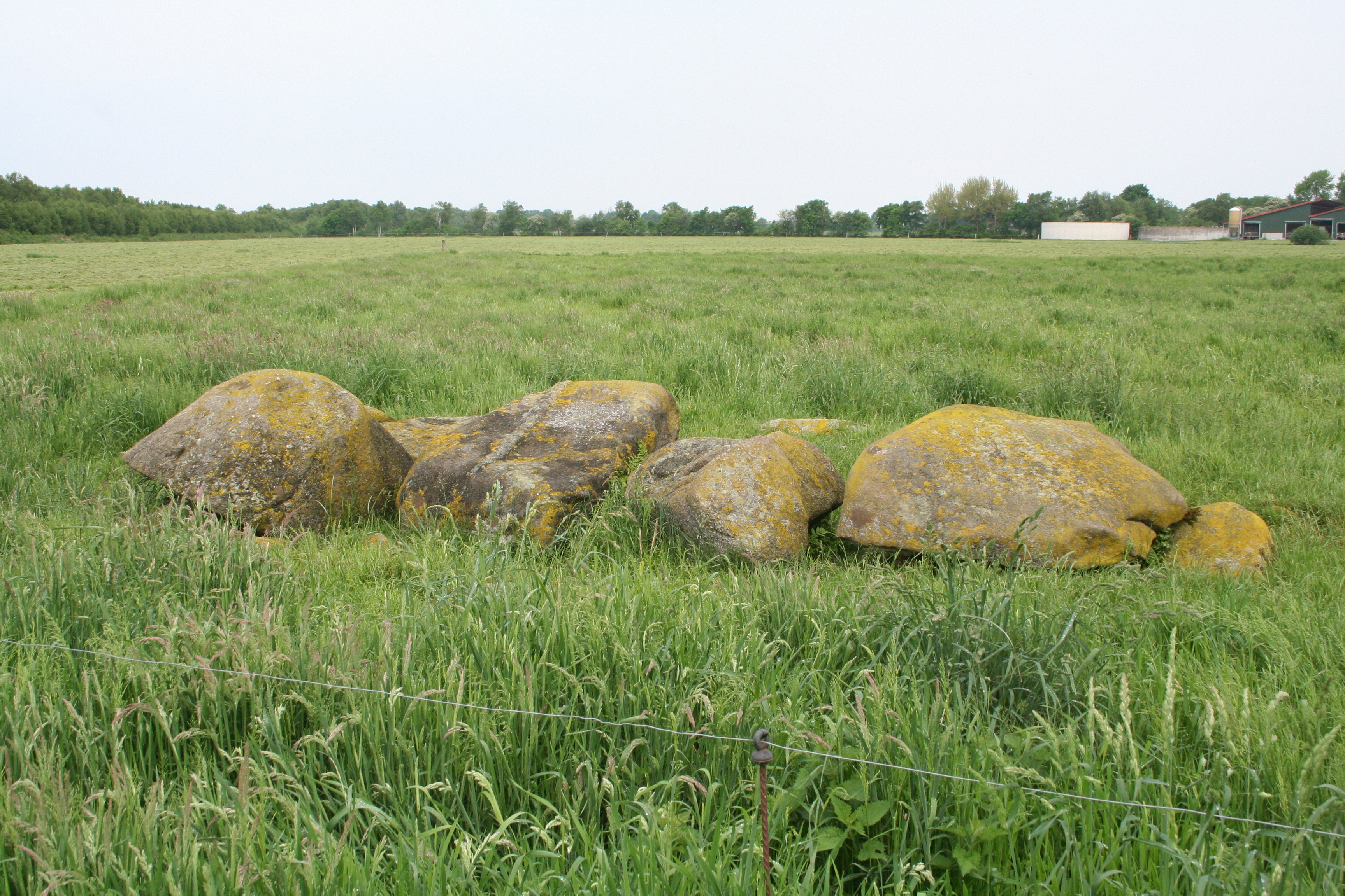 Megalithic tomb Wanna 13